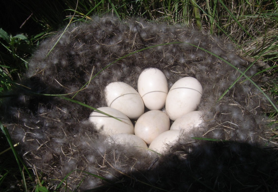 This Gadwall nest was found on Winberg Waterfowl Production Area (WPA). Gadwall line the sides of their nest with feathers.